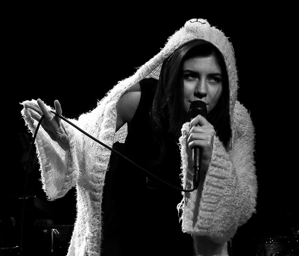 Marina and the Diamonds performing at The Bell House in Brooklyn, New York